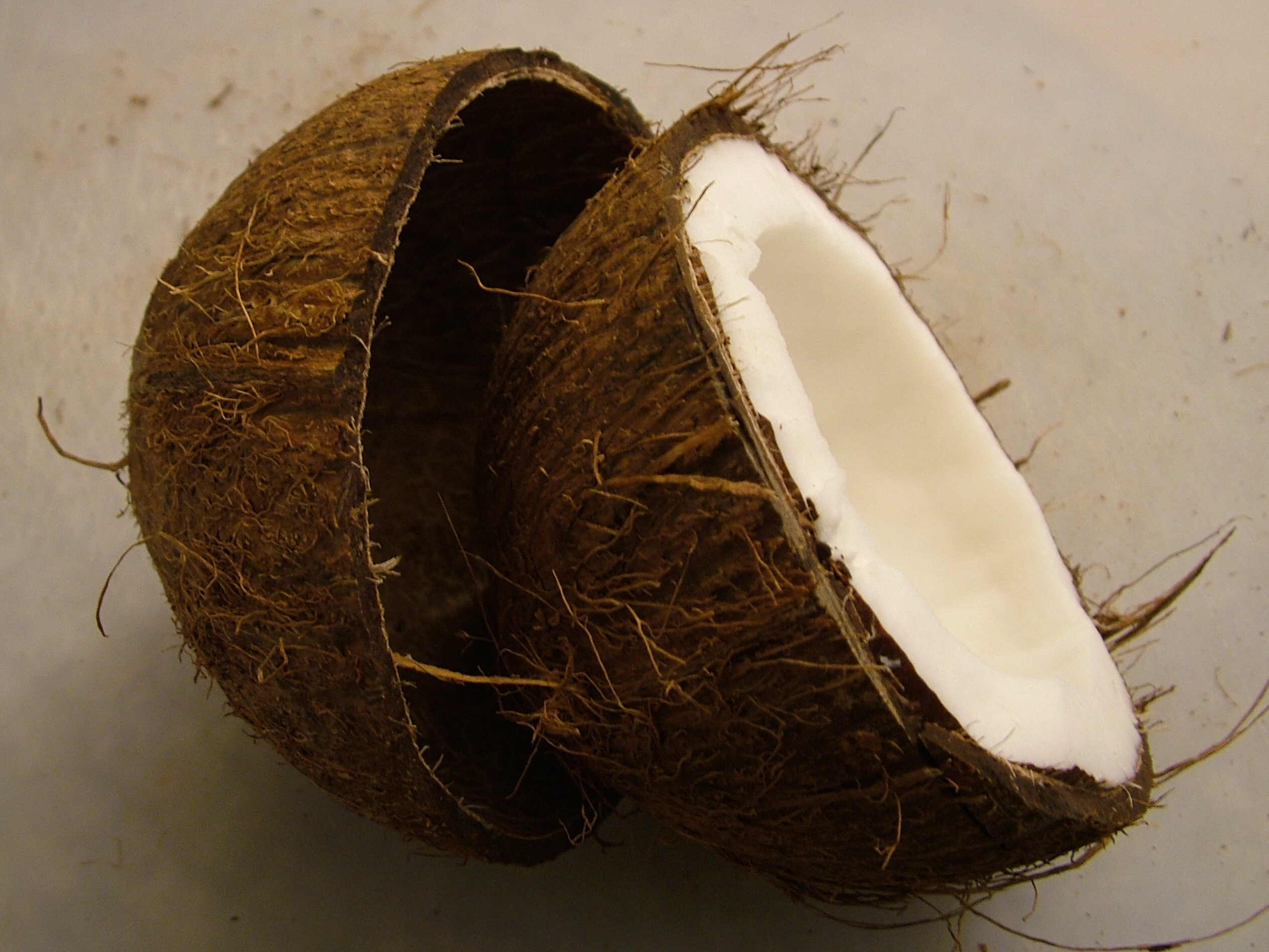 Cracked coconut, of which one half has already been cleaned of pulp.